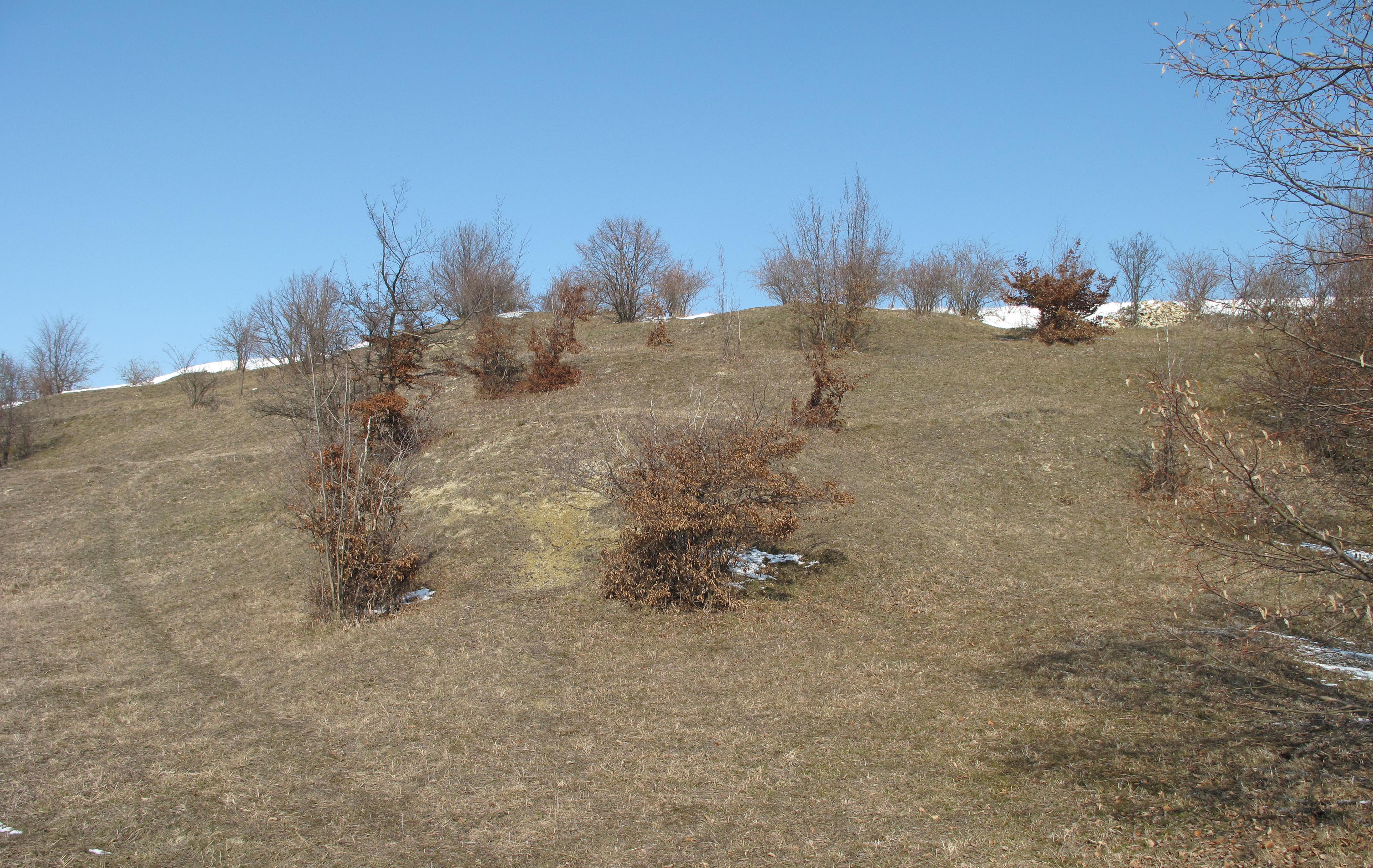 Trees in natural monument Hradiště, Dřínov municipality, Kladno District, Czech Republic.